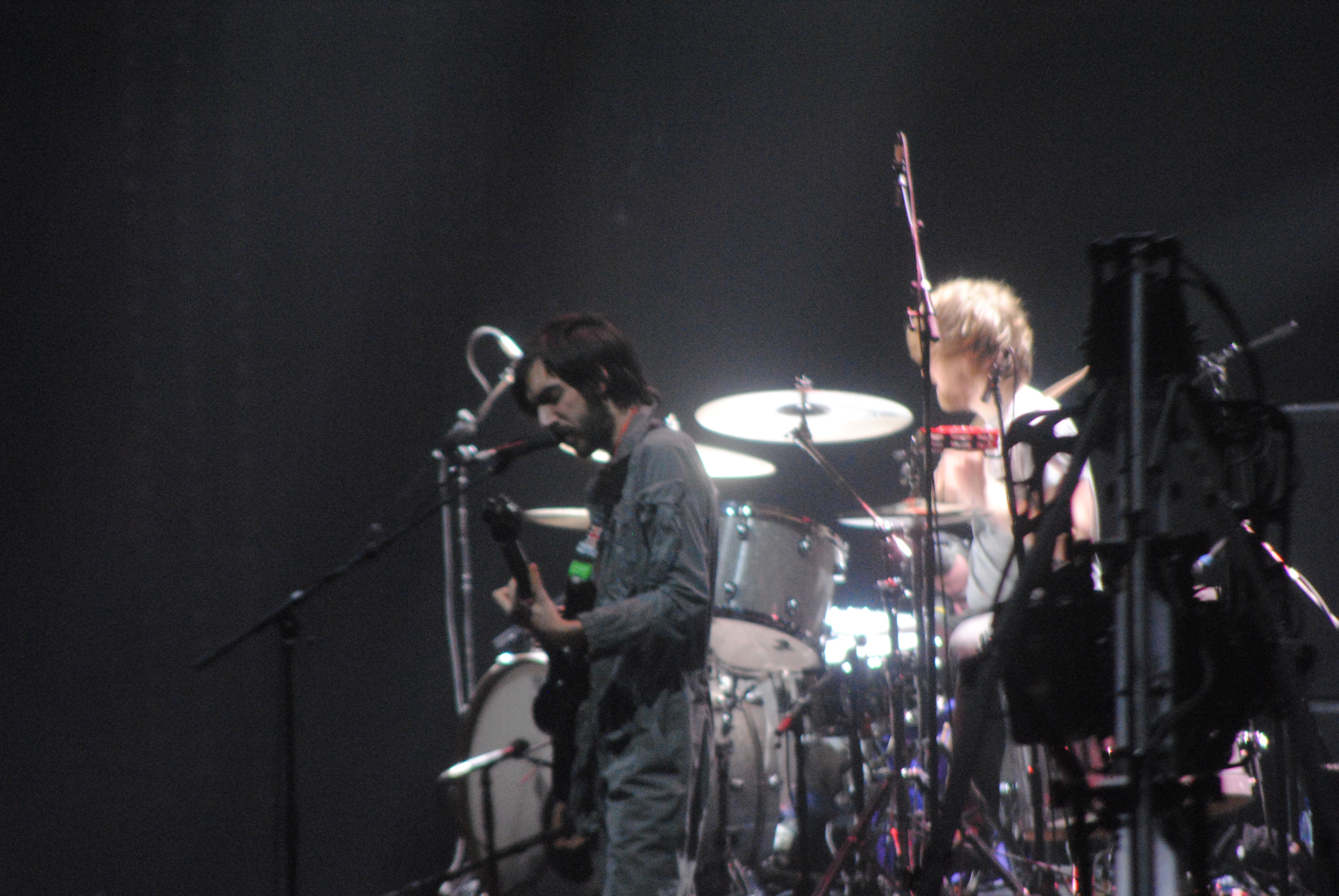 The Black Box Revelation during Humo's Pop Poll de Luxe gig in Antwerp Sportpaleis